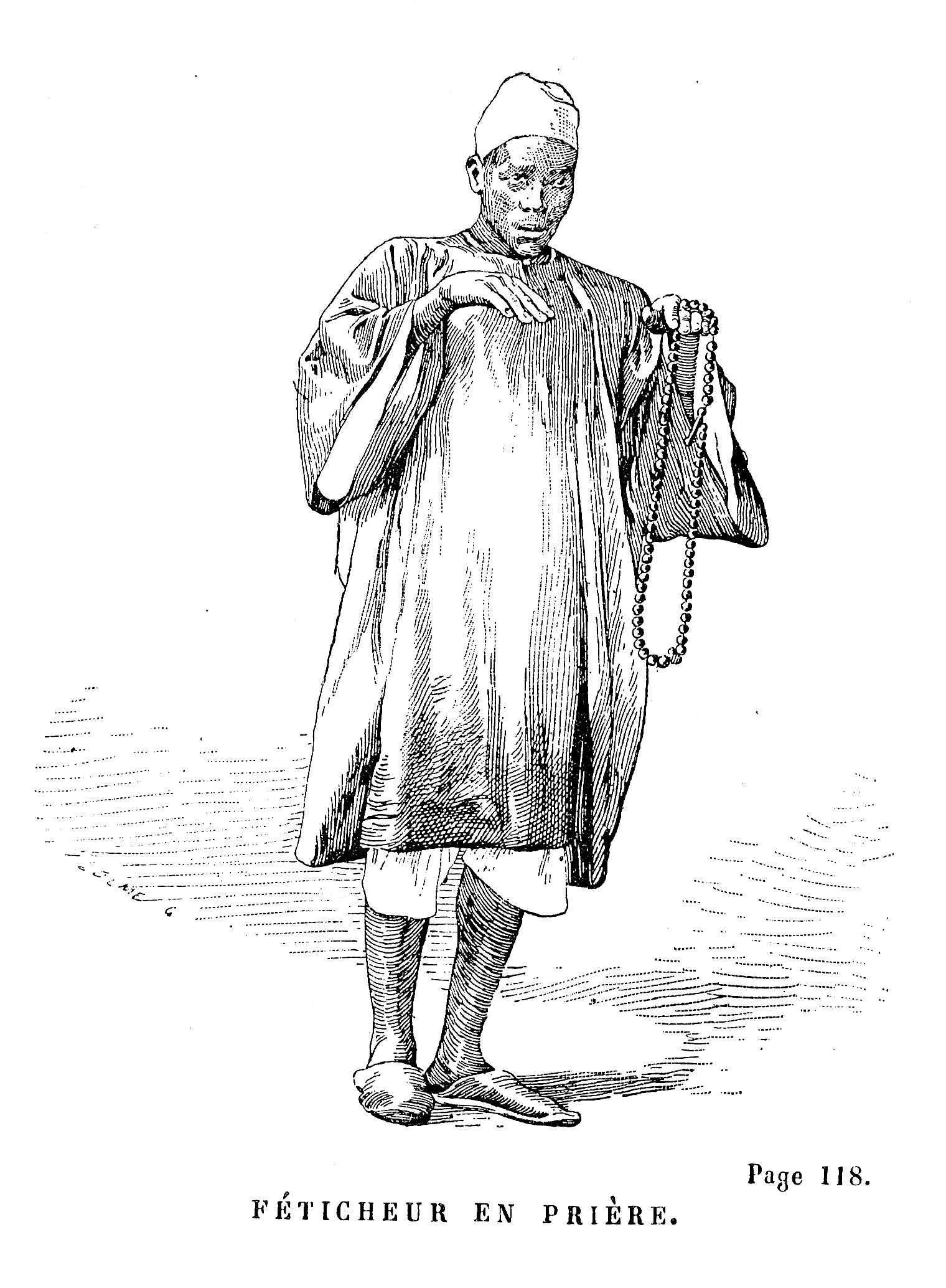 Traditional priest of the Ashanti in performing a religious ceremony.